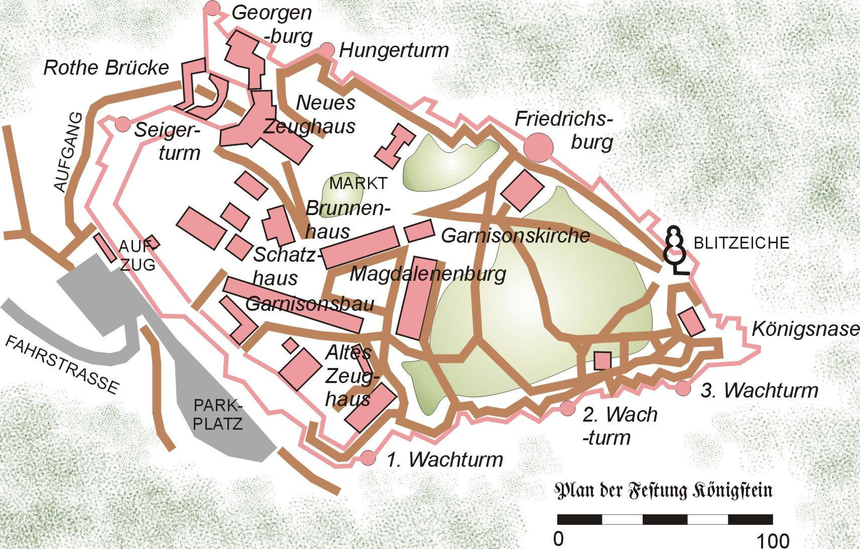 map of Festung Königstein (Saxon Switzerland) in the near of Dresden, Saxony, Germany, Europa